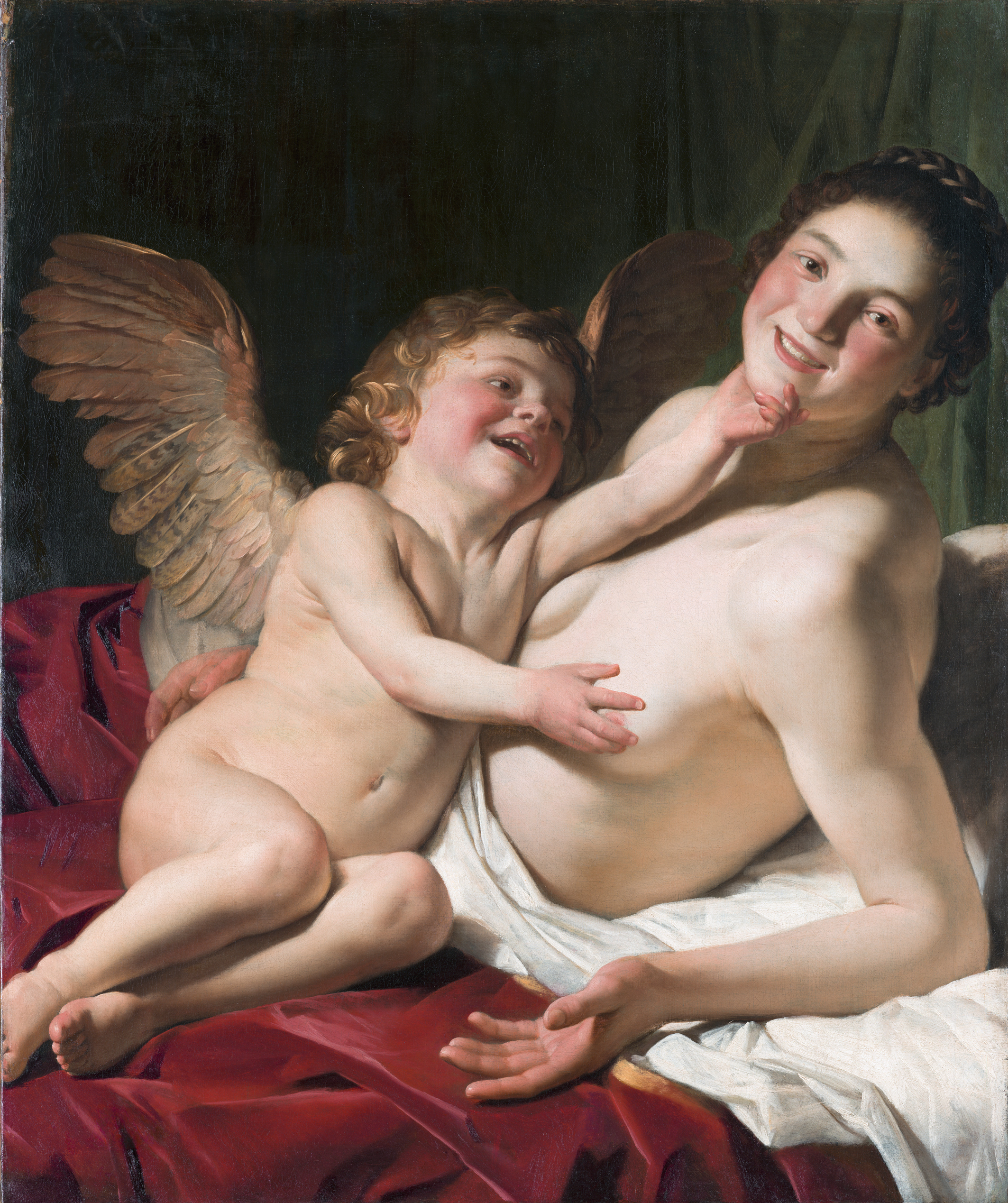 This image is available from the Netherlands Institute for Art Historyunder digital ID 69369. This tag does not indicate the copyright status of the attached work. A normal copyright tag is still required. See Commons:Licensing.